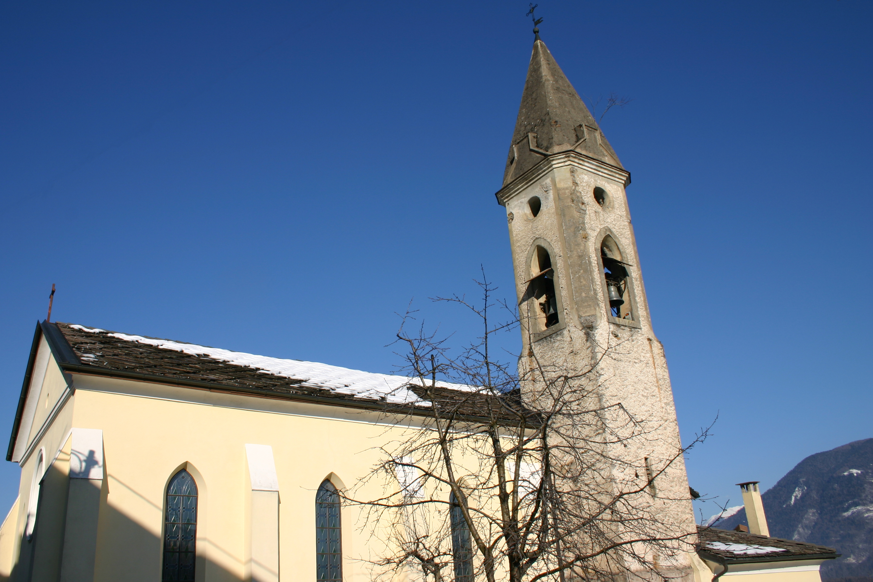 Church in Santa Caterina, Pergine Valsugana